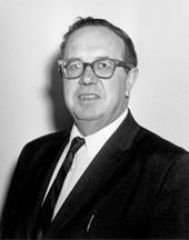 Congressman John J. Hickey